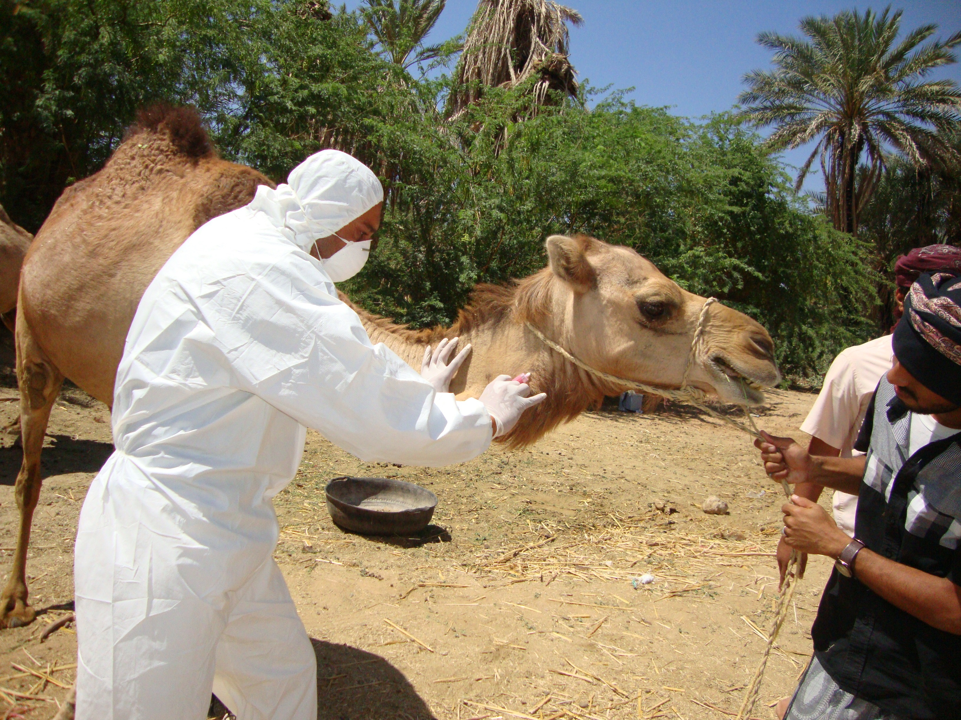 CDC champions a One Health approach, encouraging collaborative efforts to achieve the best health for people, animals, and the environment. Photo credit: Awadh Mohammed Ba Saleh